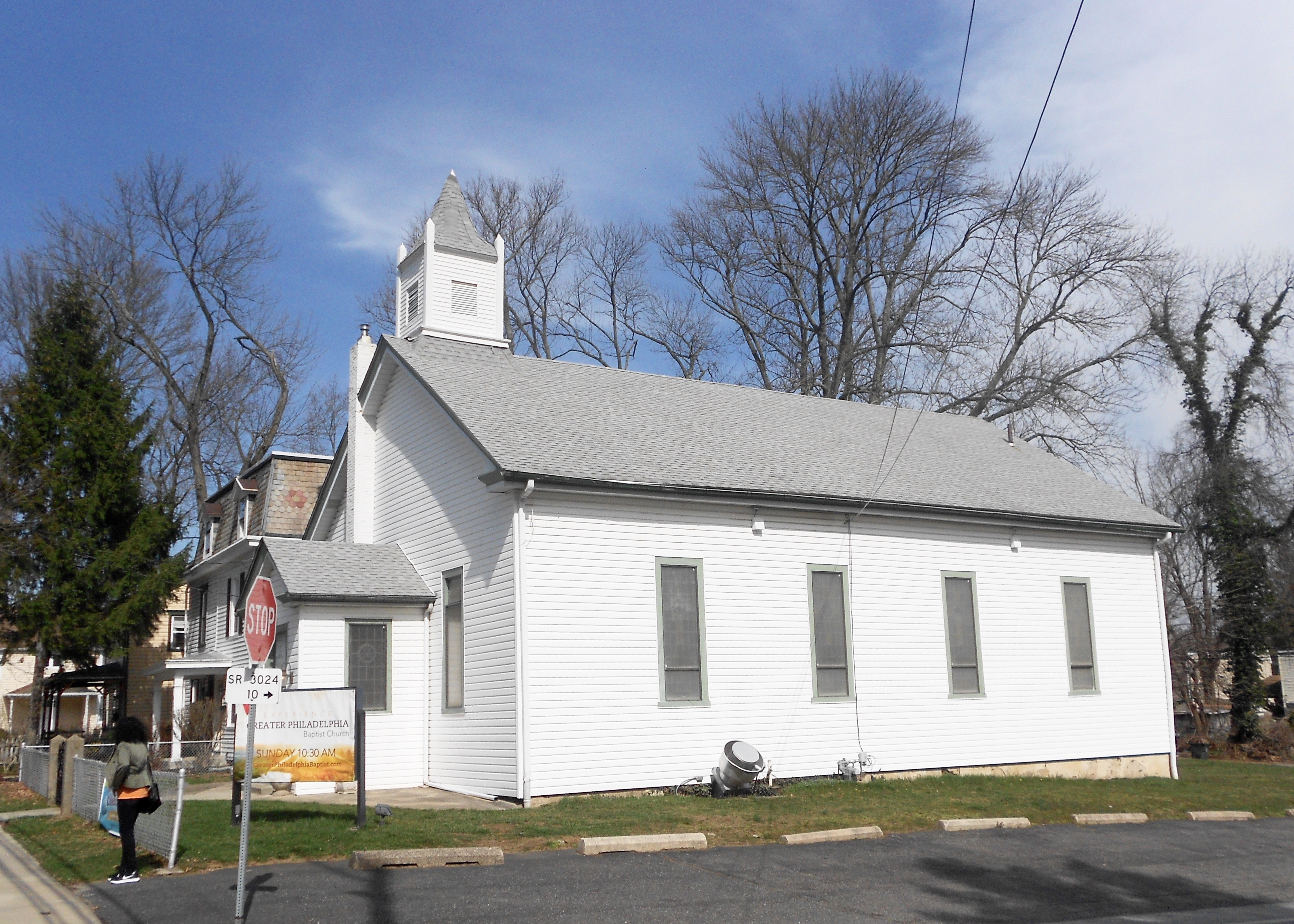 The Greater Philadelphia Baptist Church in Nether Providence Township in Delaware County, Pennsylvania. The area - most of the township - is usually just called "Wallingford" after the central village, but this is just south of Media, PA. Formerly the Zion African Methodist Episcopal church at the intersection of Manchester Ave. and Wallingford Ave. It now houses the Greater Philadelphia Baptist Church (which I've never heard of before - but that doesn't mean much)